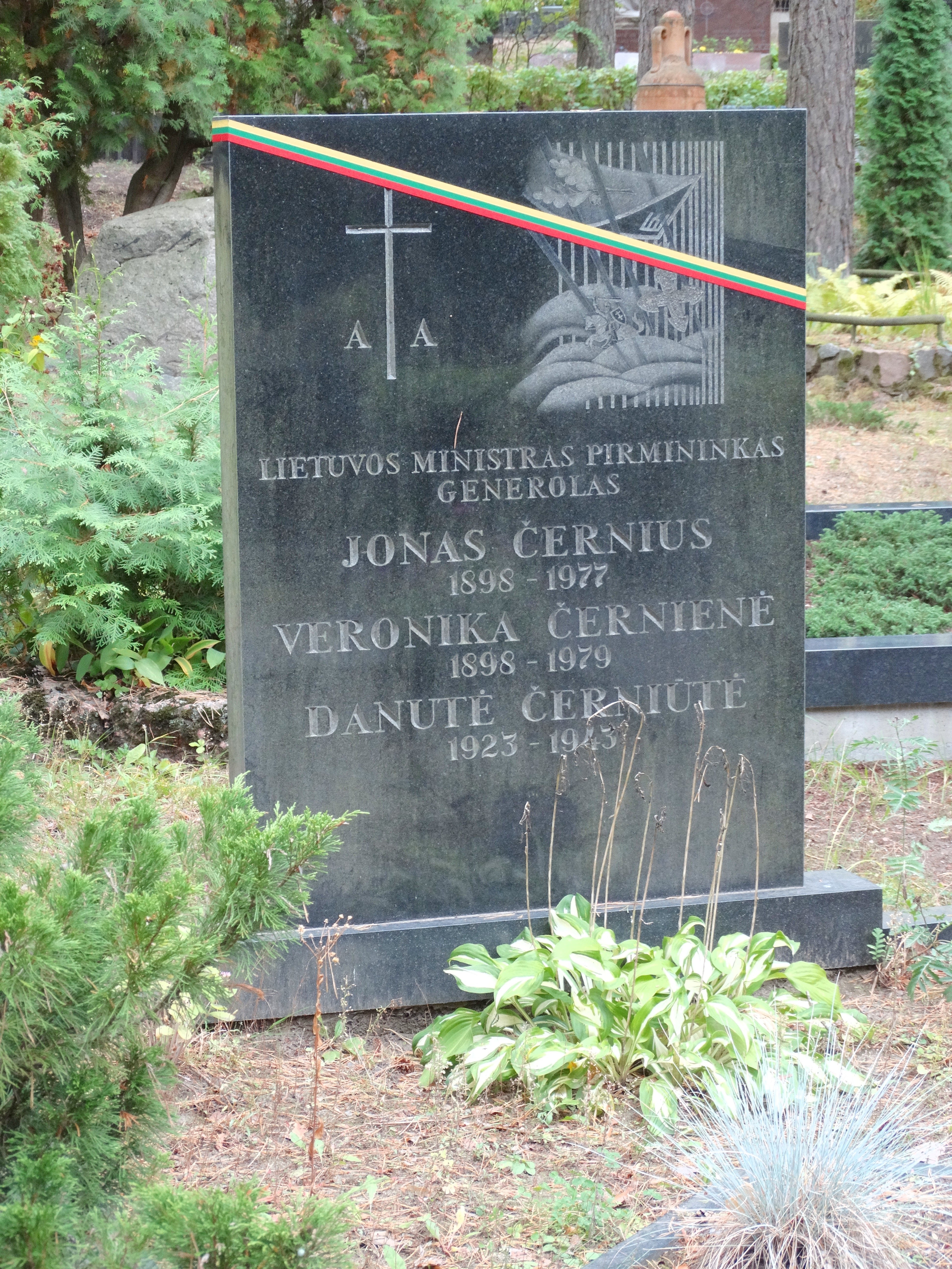 Tomb of Jonas Černius, Petrašiūnai, Lithuania